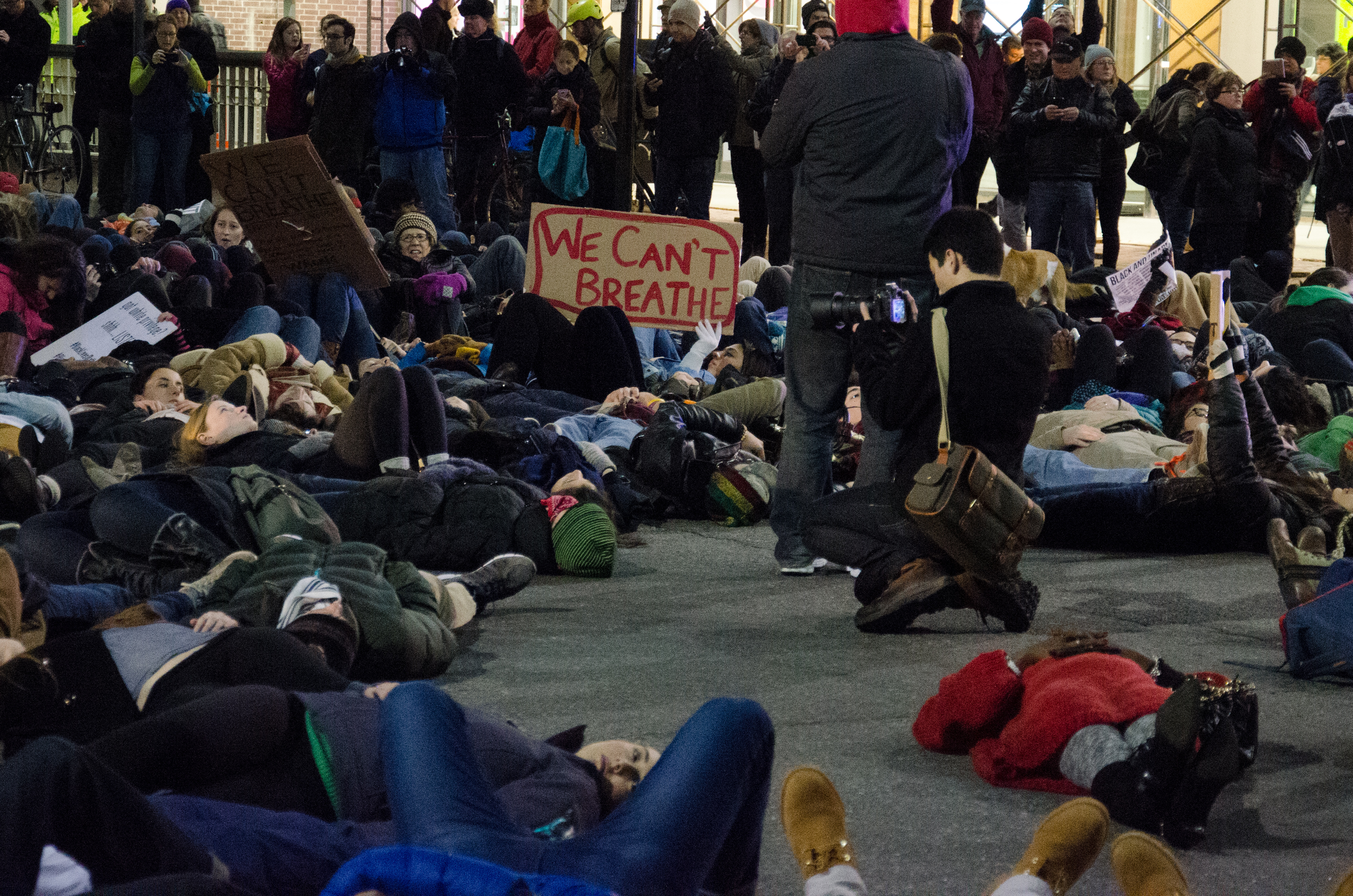 we can't breathe